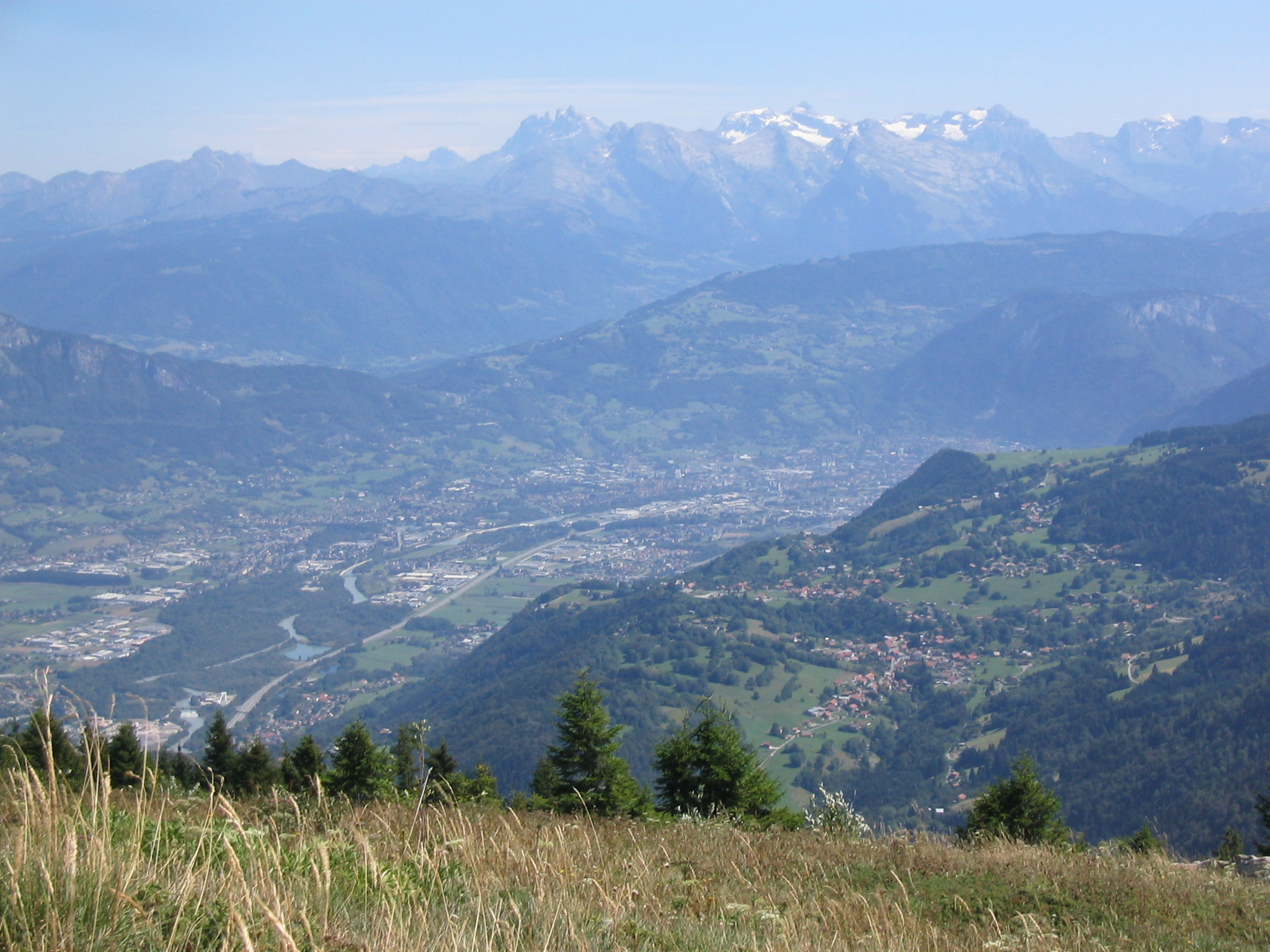 Cluses (Haute-Savoie, France)